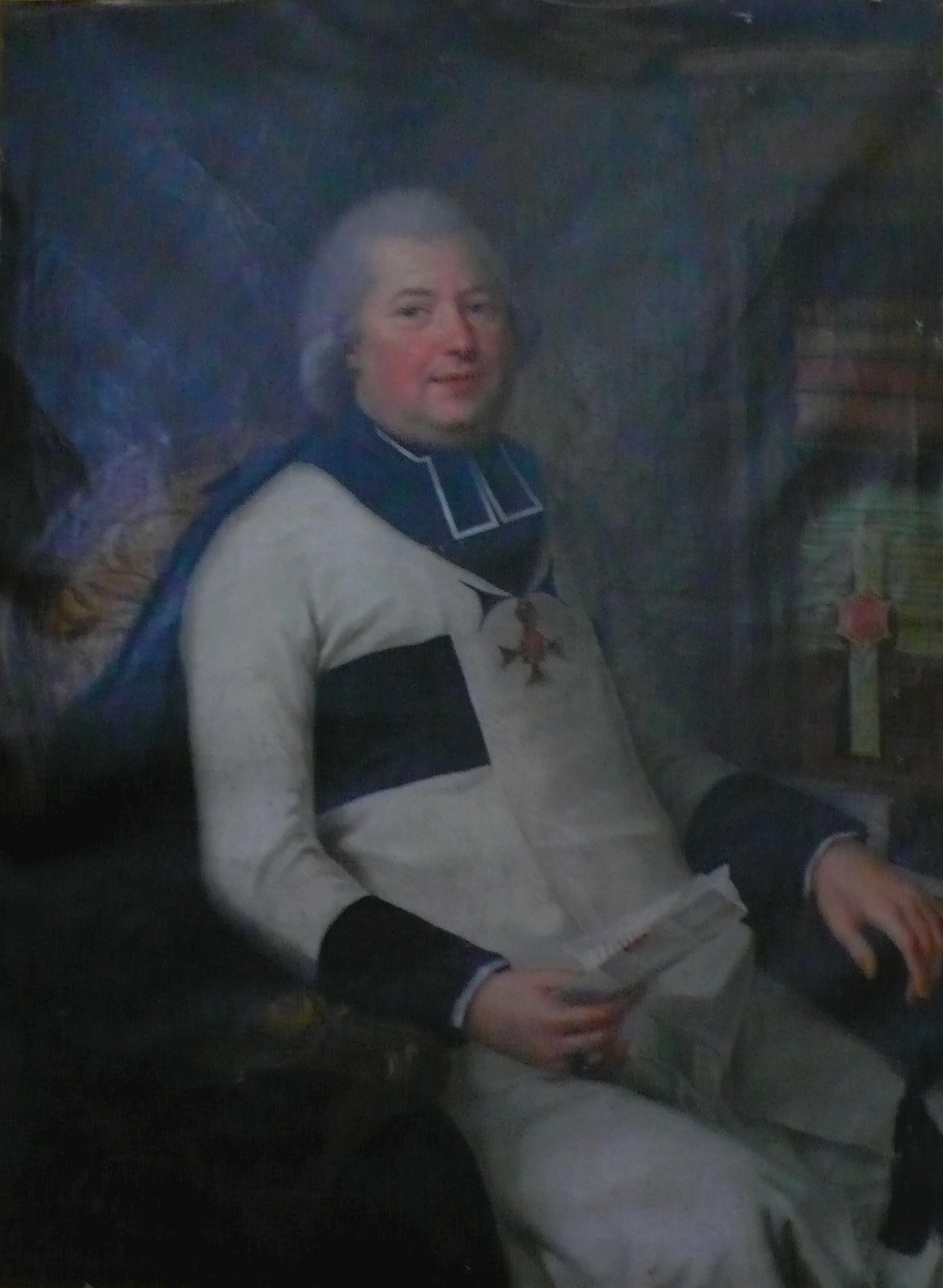 L'abbé Claude Carlier (1725-1787) en costume de prieur d'Andressy